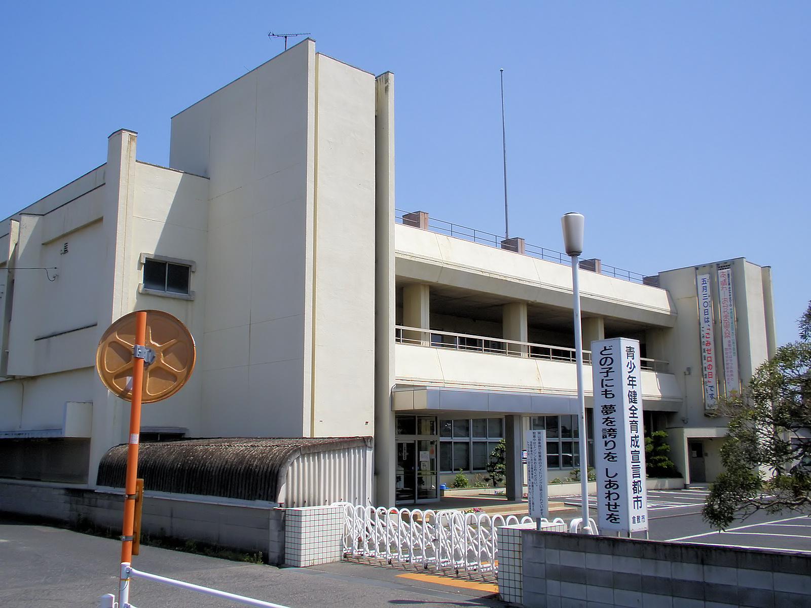 Kurashiki city office Shō branch